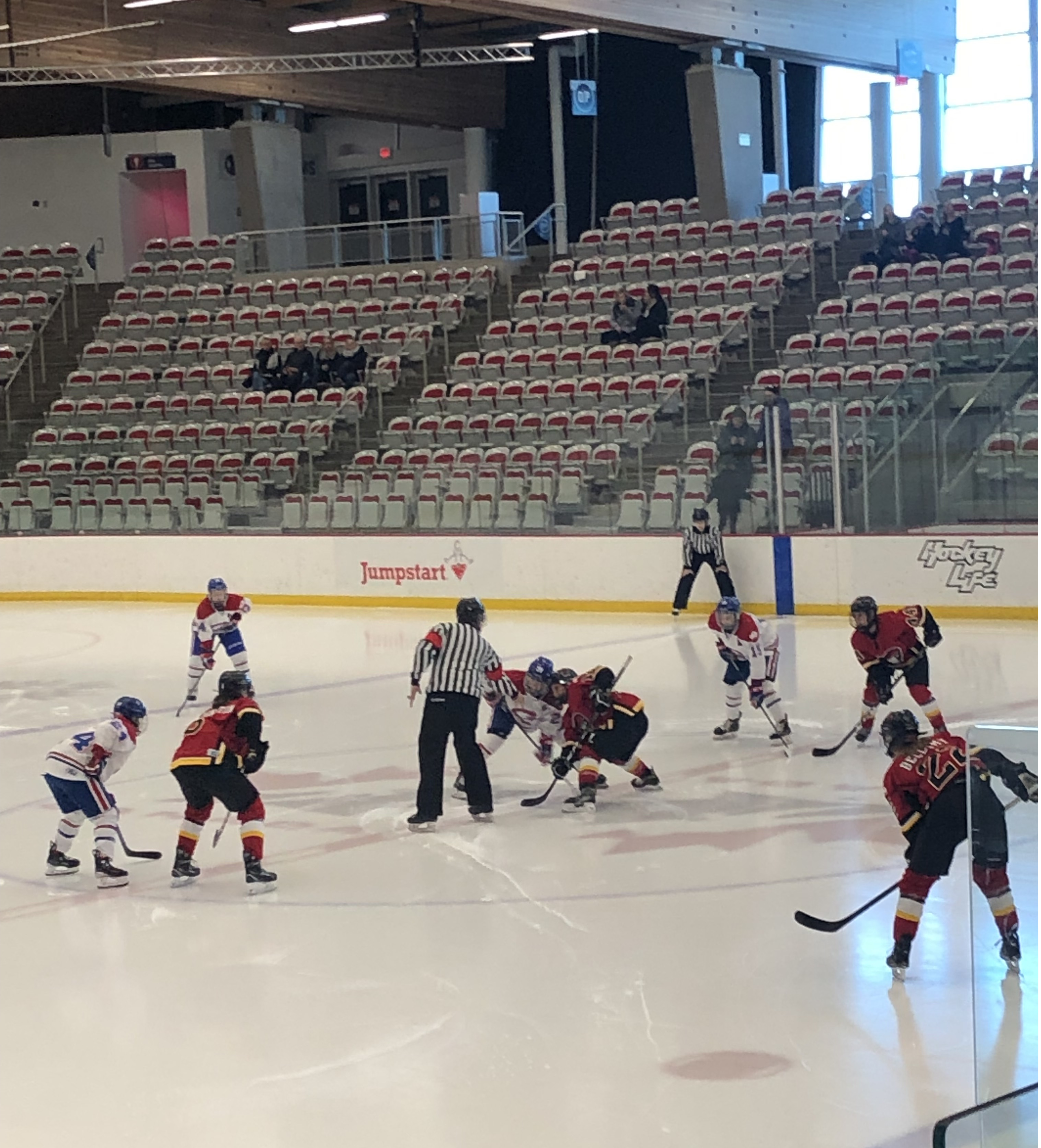 Calgary Inferno Facing off against Montreal 25 November 2018